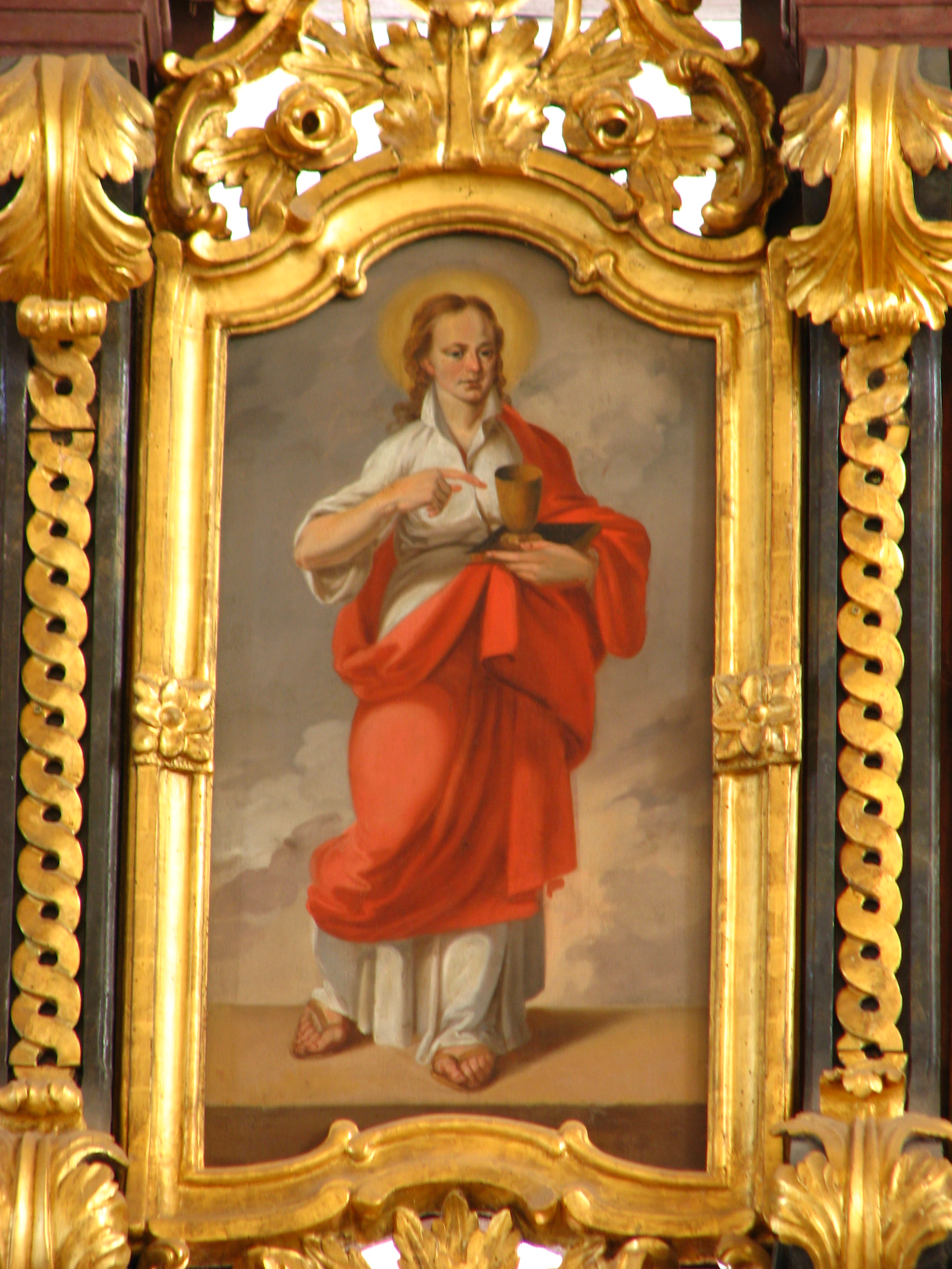 The picture is a Greek Catholic icon depicting apostle John with a chalice in his hand referring either to the Last Supper or to the legend of the chalice of poisoned wine that did not kill him. The icon was painted in the end of the 18th century as part of the iconostasis of the Greek Catholic Cathedral of Hajdúdorog, Hungary. John's icon is placed on the second tier of the iconostasis, the so called Twelve Apostles tier. This icon is the fifth painting from the right.